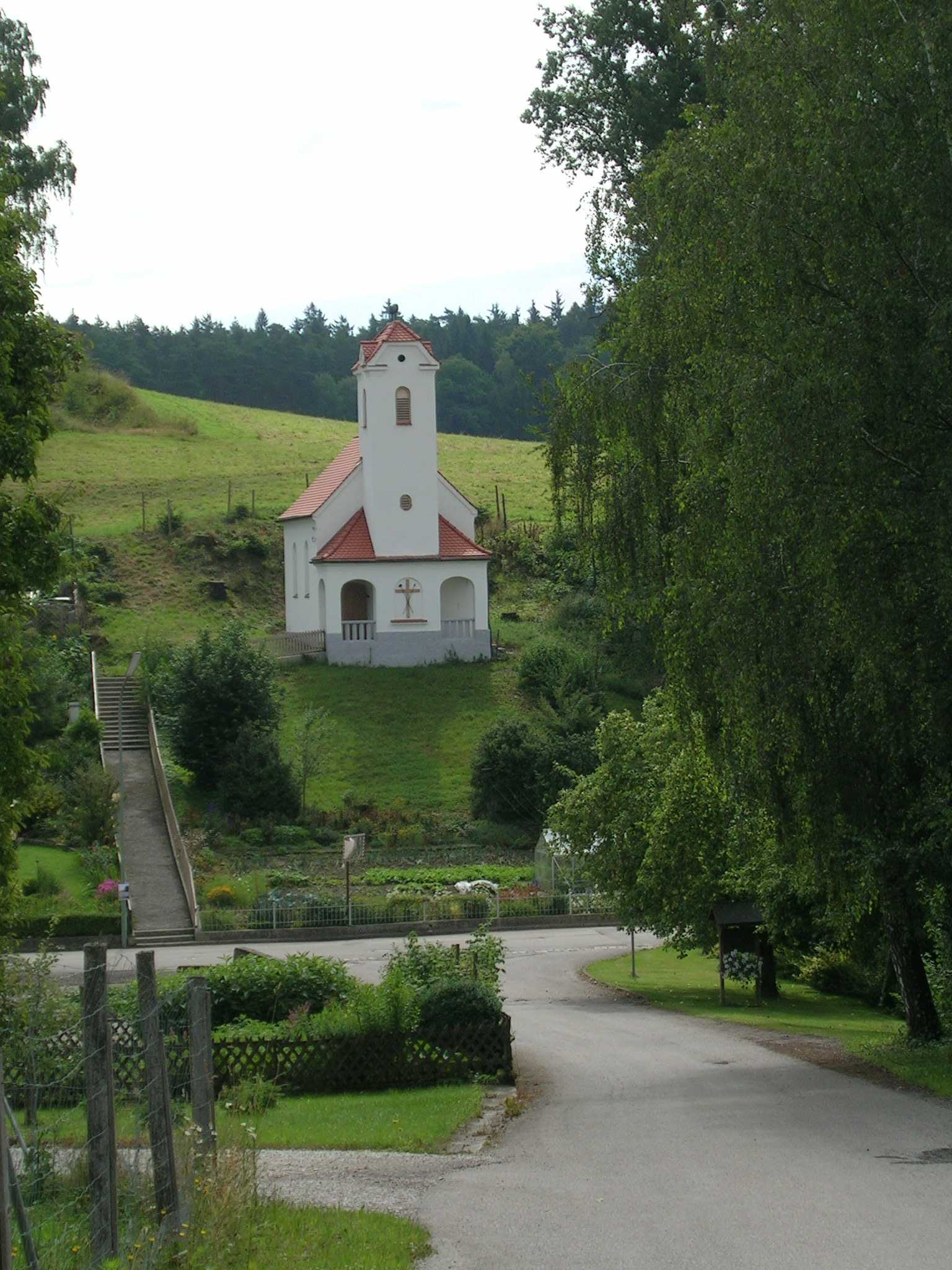 Chapel in Reichersdorf, municipality Gammelsdorf, Upper Bavaria.